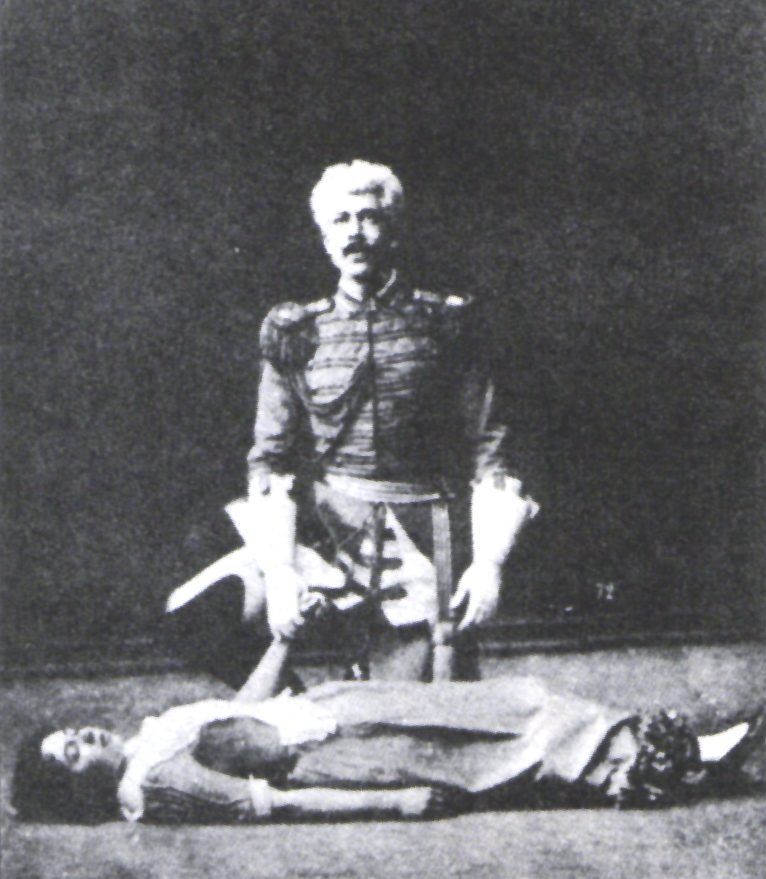 The Russian actor and director Konstantin Stanislavski (Константин Сергеевич Станиславский) with his wife Maria Lilina as Ferdinand and Louise in Friedrich Schiller's tragedy Love and Intrigue, performed in 1889 by The Society of Art and Literature.